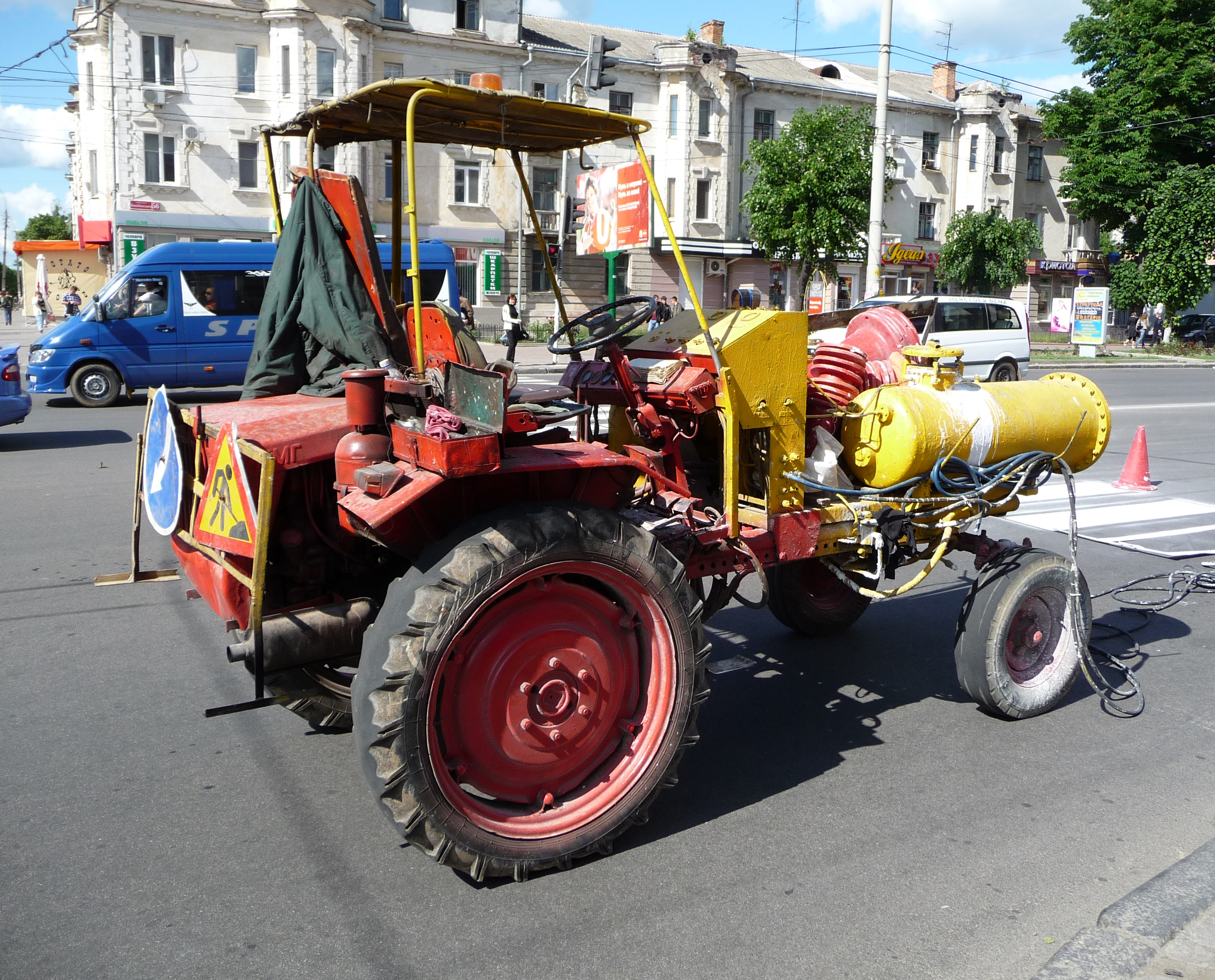 Tool carrier T-16MG (USSR tractor). Ukraine, Vinnytsia, 2009. Production of KhZTSSh (Kharkov)